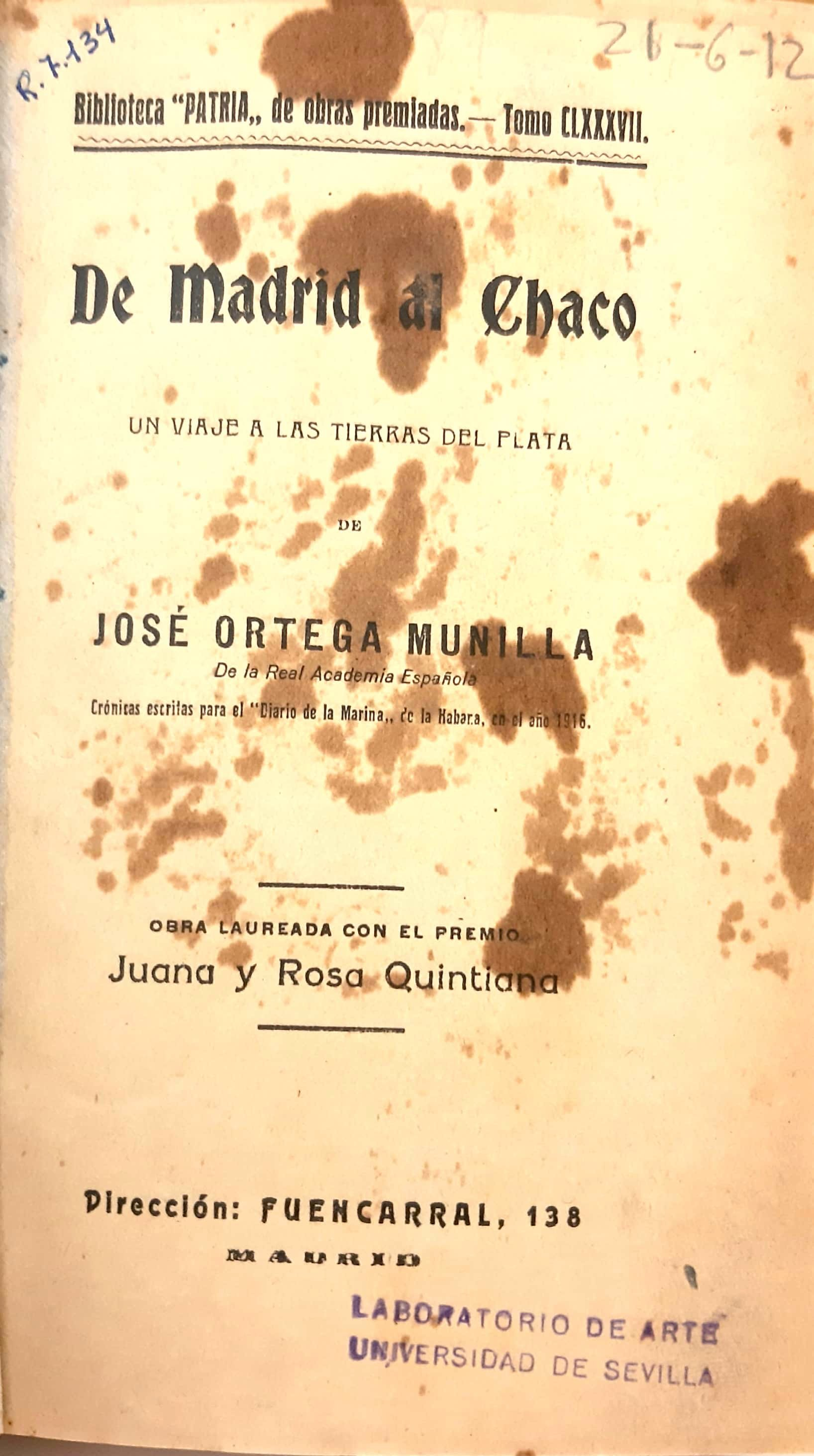 Autor: Ortega Munilla, José (1856-1922). Título: De Madrid al Chaco : un viaje a las tierras del Plata : crónicas escritas para el "Diario de la Marina" de La Habana, en el año 1916 / José Ortega Munilla. Publicación: Madrid : Biblioteca Patria, [s.a.] Descripción física: 206 p. ; 18 cm. Serie: Biblioteca Patria de obras premiadas ; 187 Materia/género: Argentina-Descripción y viajes. Lugar: España - Madrid Arte 21-6-12 Worldcat, Hathitrust